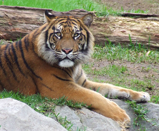 A Sumatran tiger in the zoo of Fuengirola in Spain